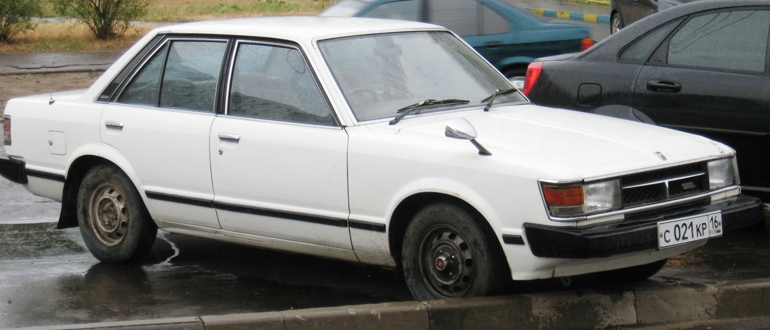 A 1980-1982 Toyota Celica Camry 1.8 XT (JDM) in Russia, with Tatarstan license plates.